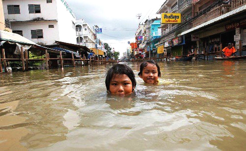 Thailand/Bangkok North/ Street as Large Swimming Pool